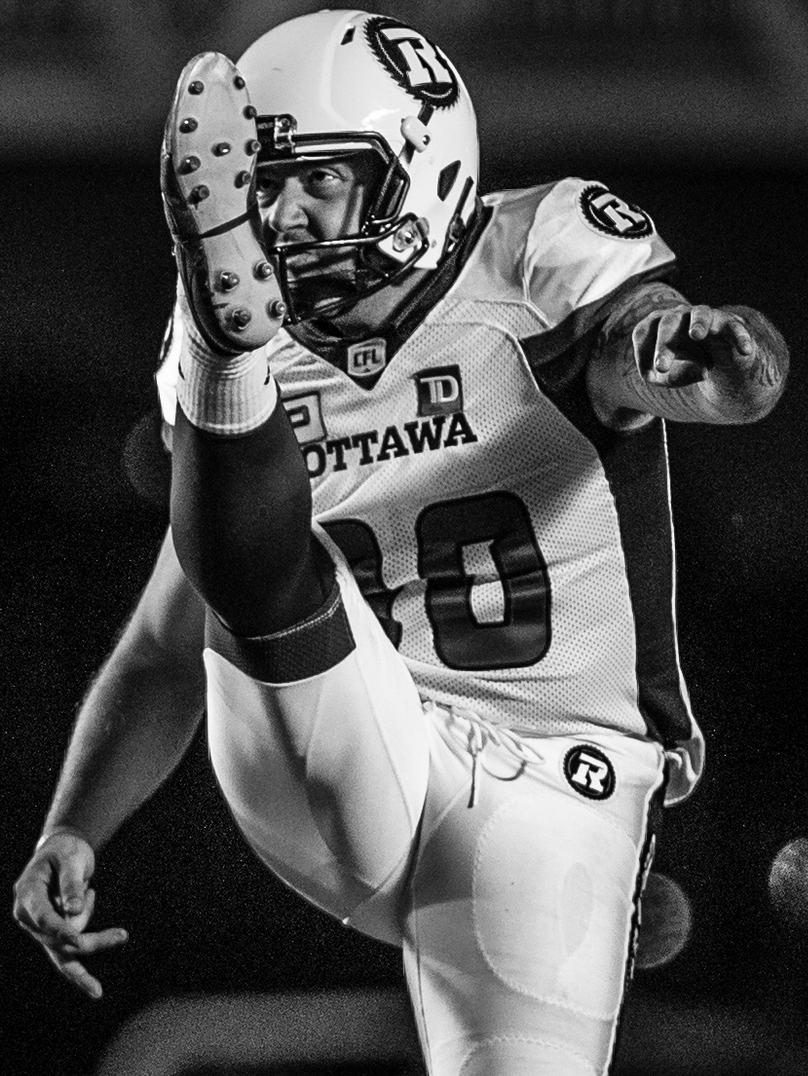 Chris Milo (30) of the Ottawa REDBLACKS during the pre-season game against the Winnipeg Blue Bombers at TD Place in Ottawa, ON on Monday June 13, 2016. (Photo: Johany Jutras)